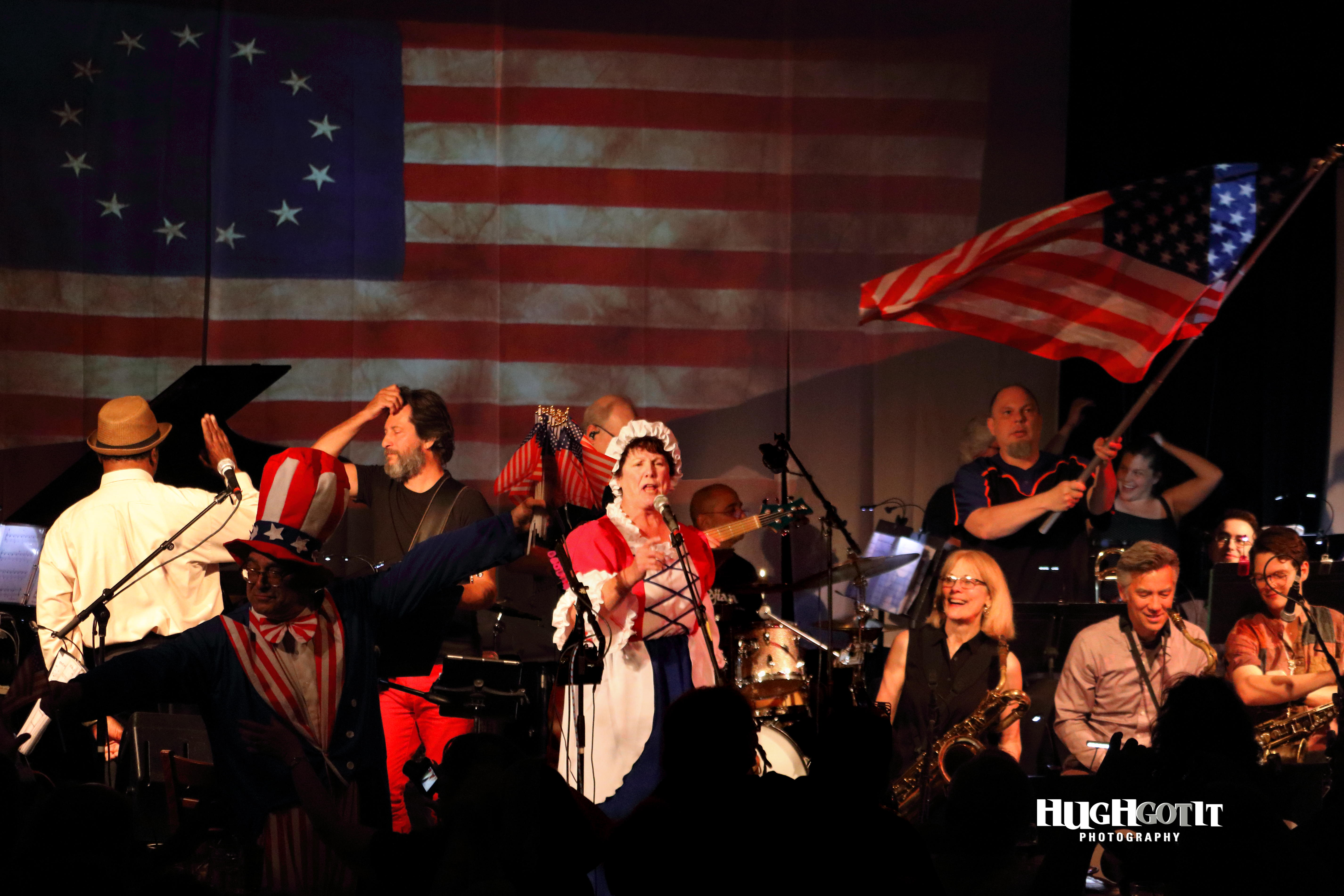 Flag Day Show '19